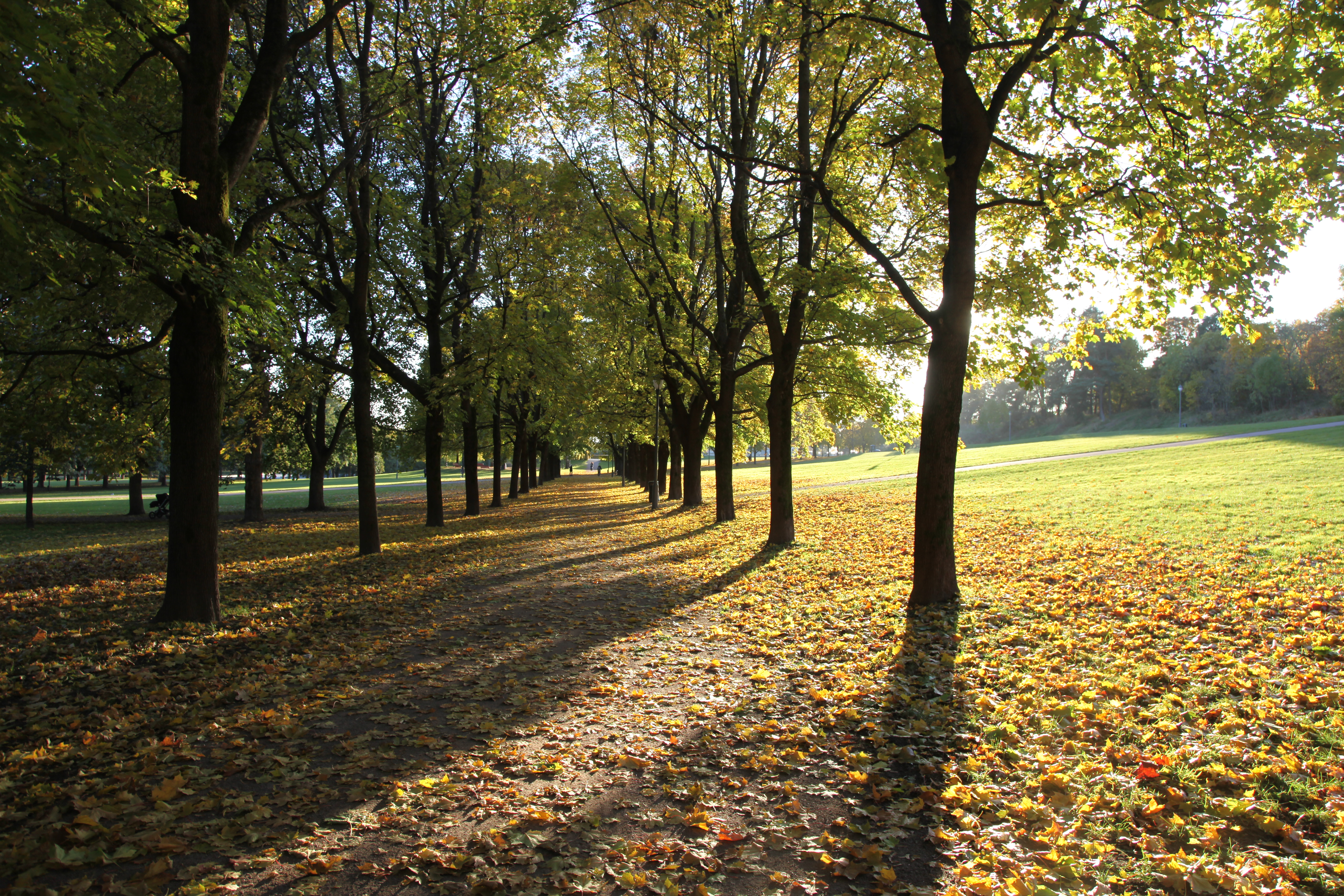 Frogner park in Oslo